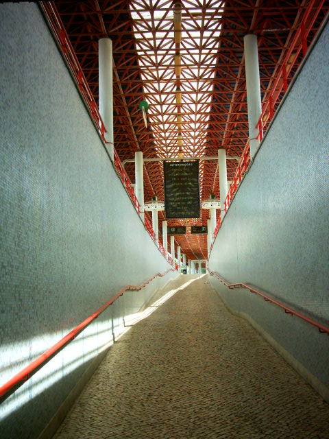 Monte Abraão train station on Sintra railway, Portugal